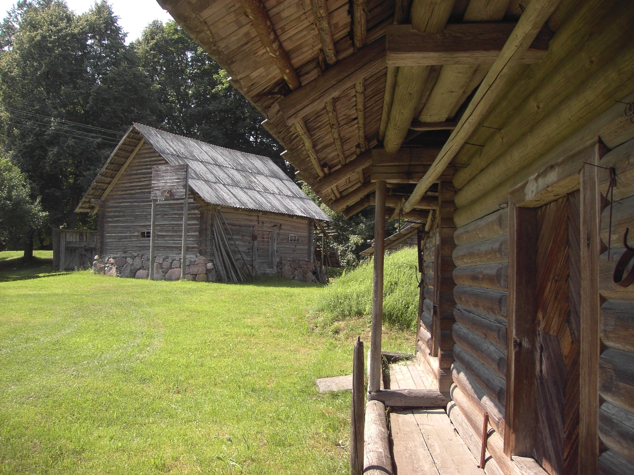 Village Varniškės II, Utena district, Lithuania